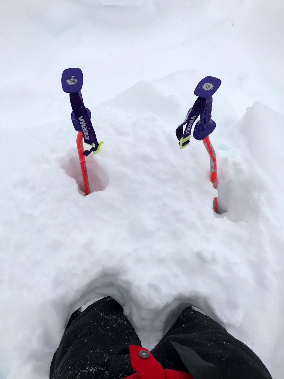 A typical Pow Day at PK